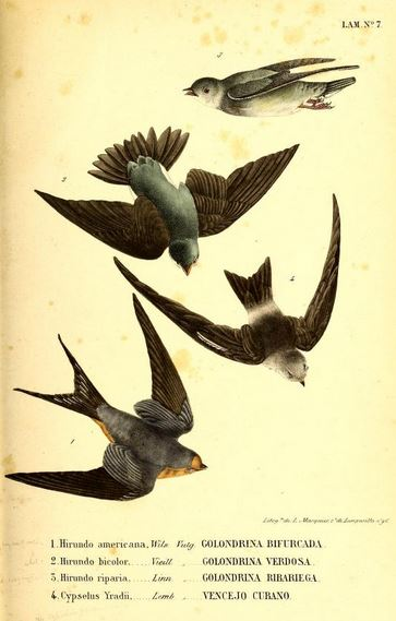 1) Hirundo rustica = Golondrinas Bifurcada 2) Tachycineta bicolor = Golondrinas Verdosa 3) Riparia riparia = Golondrinas Ribariega 4) Tachornis phoenicobia iradii = Vencejo Cubano